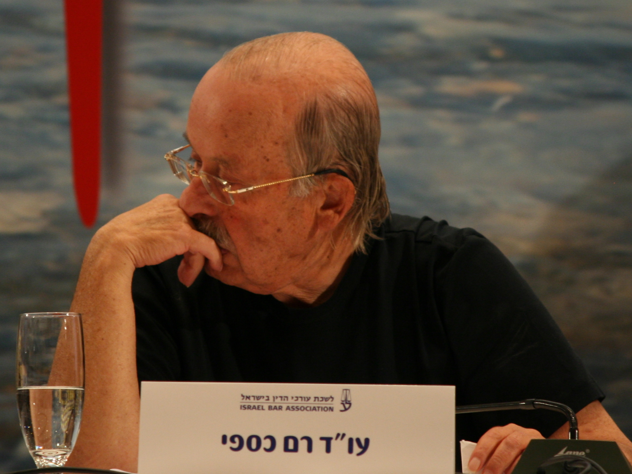 Ram Caspi, an Israeli a prominent attorneyUnknown רם כספי (נולד ב-16 באוגוסט 1939) הוא עורך דין ישראלי.